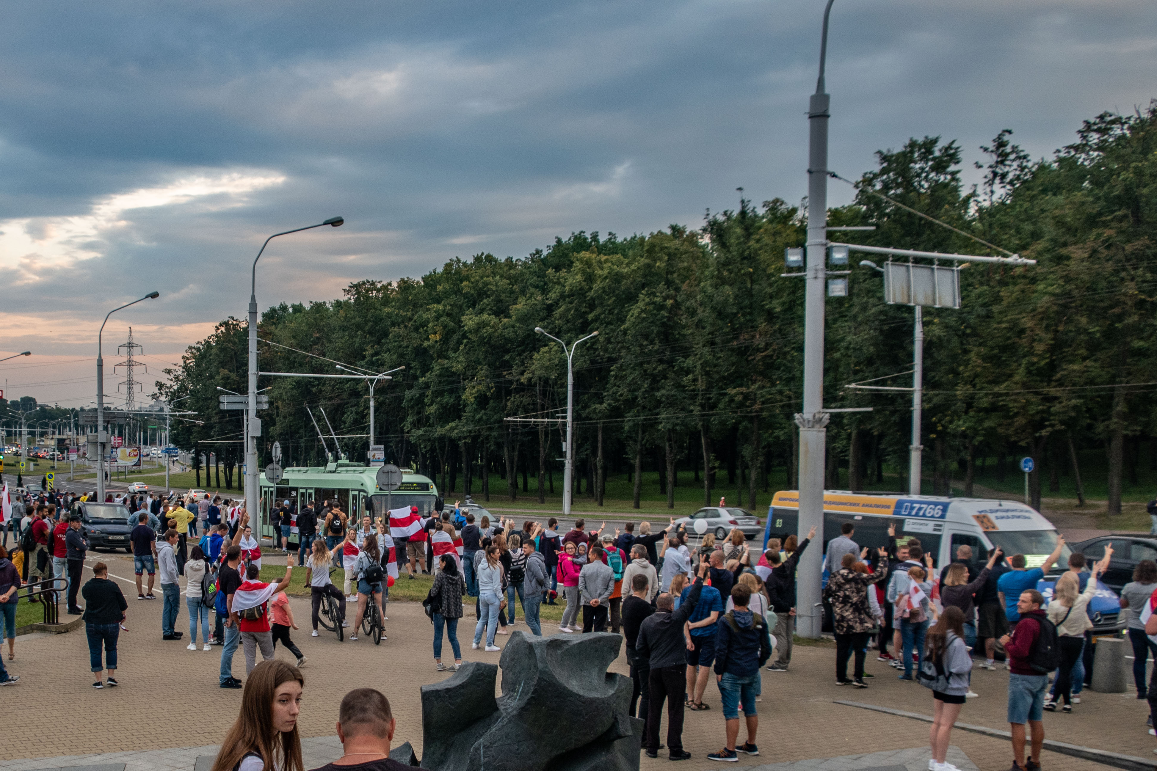 Local line of protest and solidarity near Mahilioŭskaya station, 20 August 2020. Minsk, Belarus